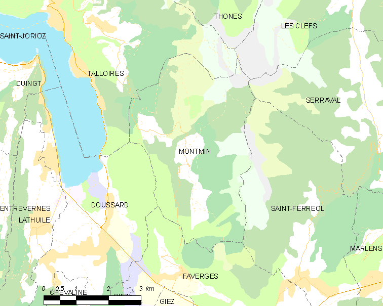 Map of French municipality Montmin